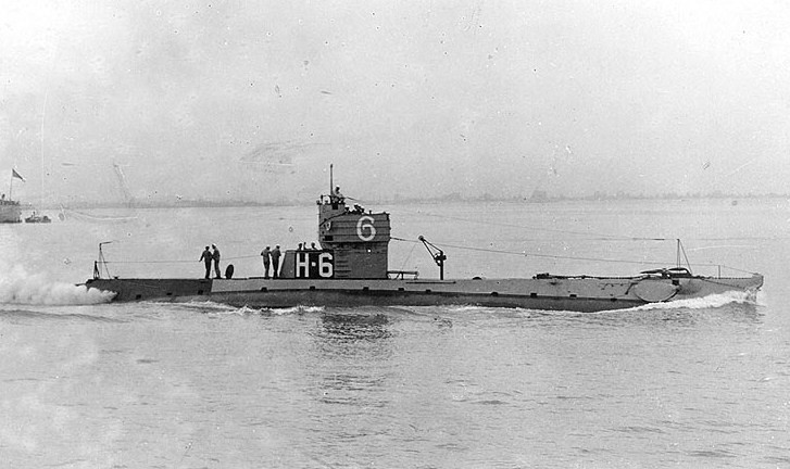 USS H-6 underway, circa 1922 with Submarine Division 6 emblem on conning tower.